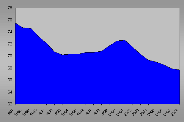 US Citizens with Private Health Insurance in %; U.S. Census bureau: Income, Poverty, and Health Insurance Coverage in the United States: 2007